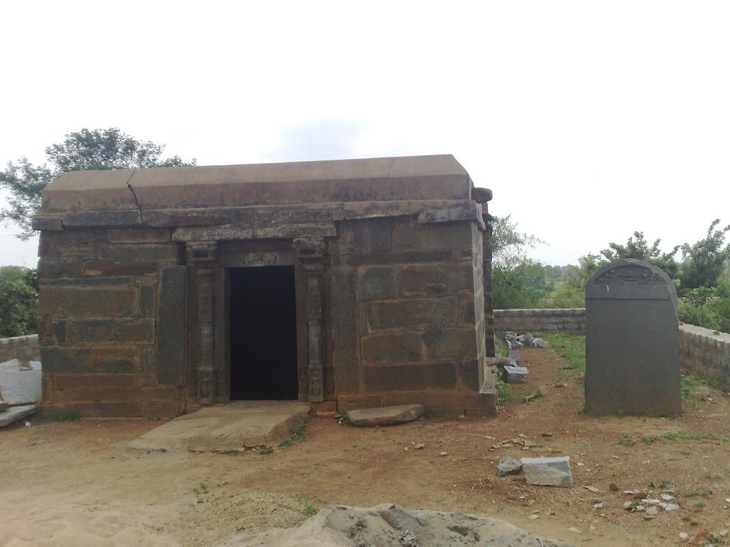 Praneshwara (Hindu God Shiva) Temple at Talagunda, Shimoga district, Karnataka, India. The temples dates from the fourth century Kadamba rule over the region, based on existing inscriptions of Queen Prabhavati (late 5th century) and her son King Ravivarma (late fifth-early 6th century) at the temple. From the Talagunda Pillar inscriptions, Historian Adiga surmises the temple may have existed even earlier, from the third century rule of the Chudu Dynasty of Banavasi. Ref source:Adiga, Malini (2006) [2006] The Making of Southern Karnataka: Society, Polity and Culture in the early medieval period, AD 400–1030, p age 287, Chennai: Orient Longman ISBN: 81-250-2912-5.